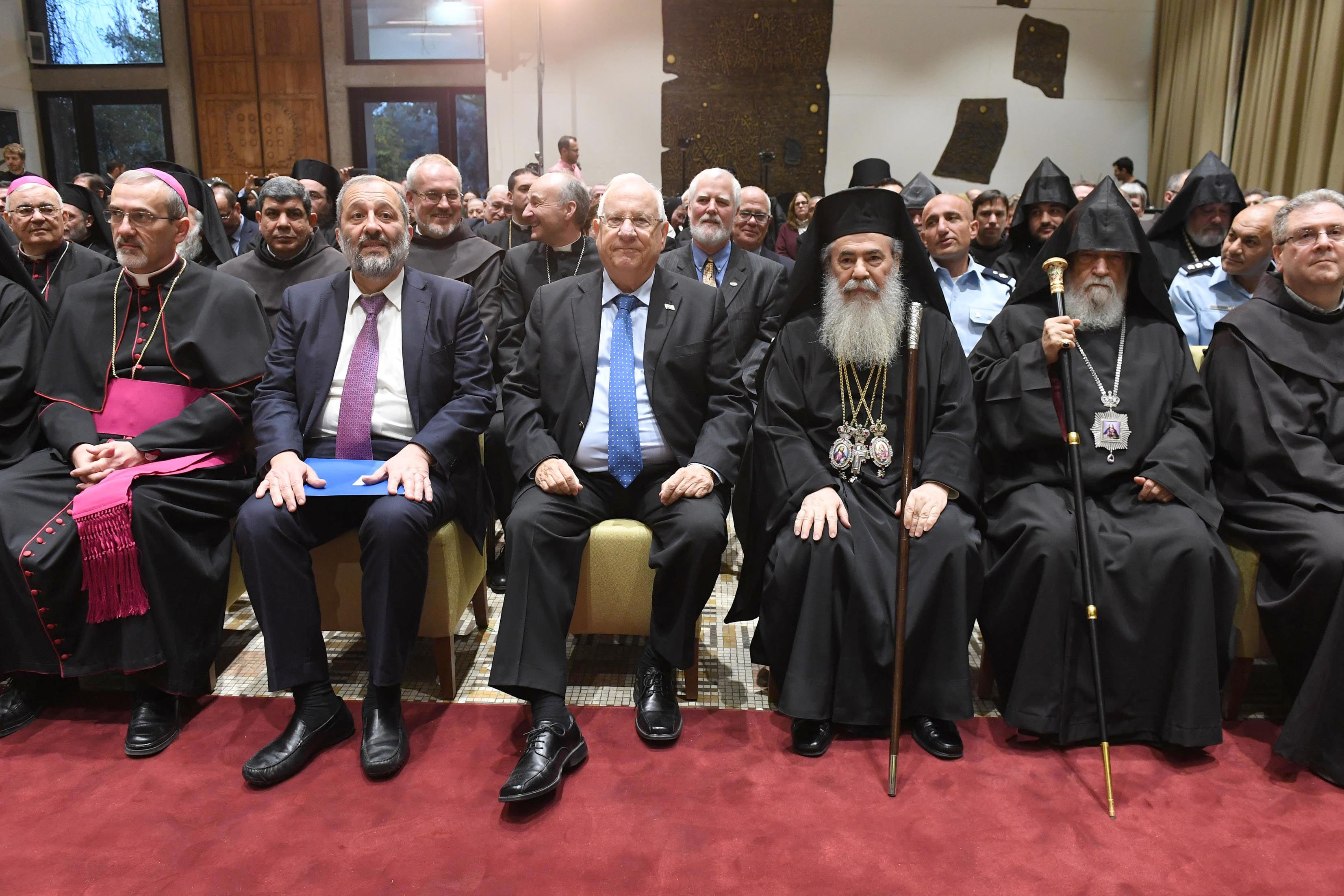 President of Israel, Reuven Rivlin, and the Minister of the Interior, Aryeh Deri, hosting the leaders of the Christian community at the traditional reception marking the New Year's Day. Wednesday, December 27, 2017. Photo Credit: Mark Neyman / GPO. Depicted people: Reuven Rivlin, Aryeh Deri and the leaders of the Christian community in Israel